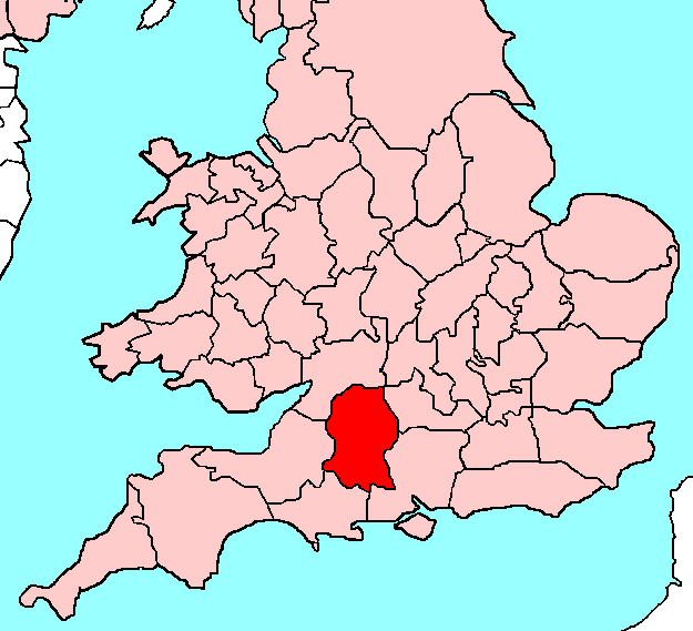 Wiltshire